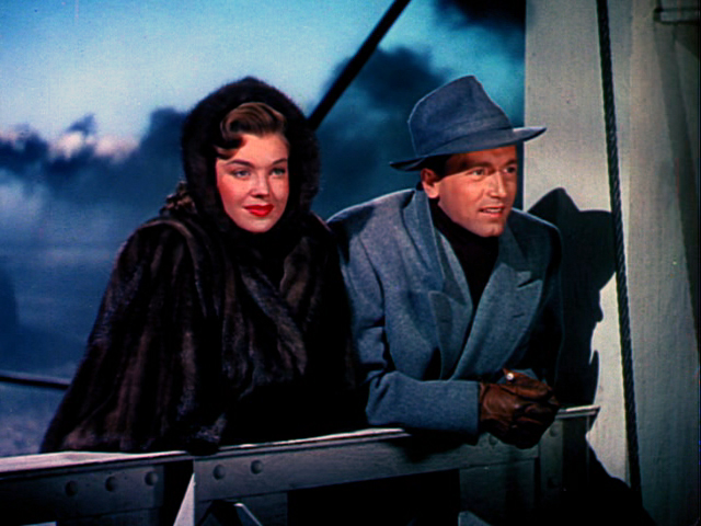 Esther Williams and Johnnie Johnston in This Time for Keeps (1947)